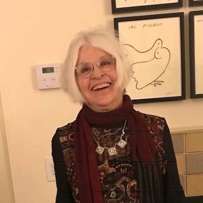 Judy Gumbo, pictured at home in 2019.